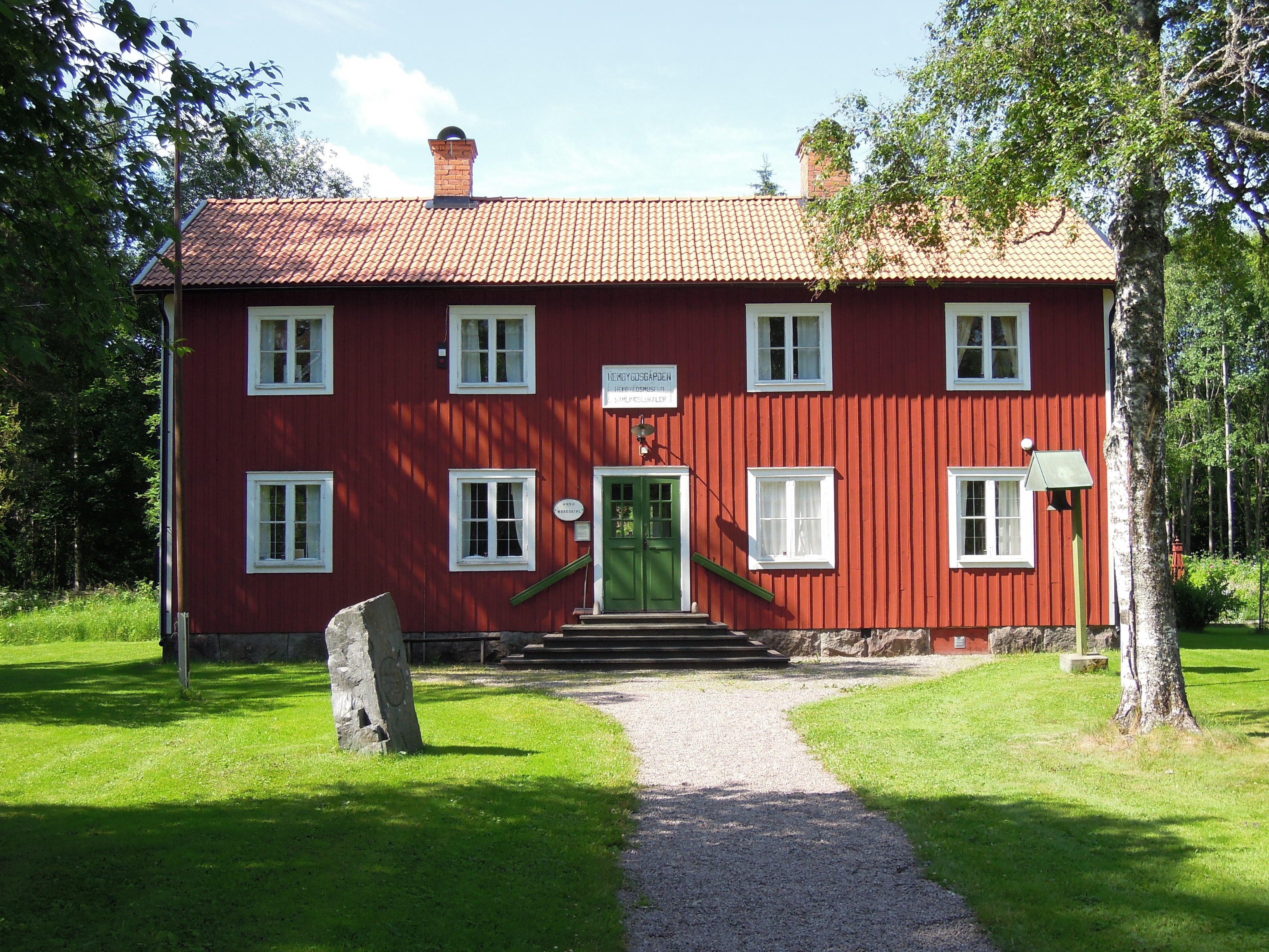 The museum homestead, Norberg, Sweden